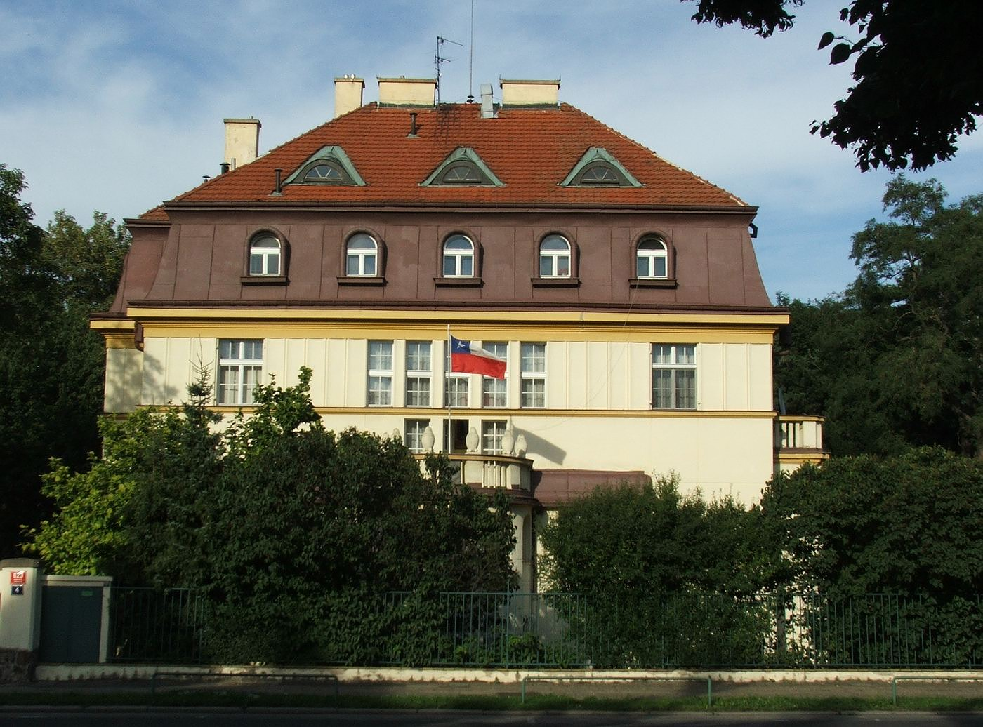 Embassy of Chile in Prague - Bubeneč, Czechia.